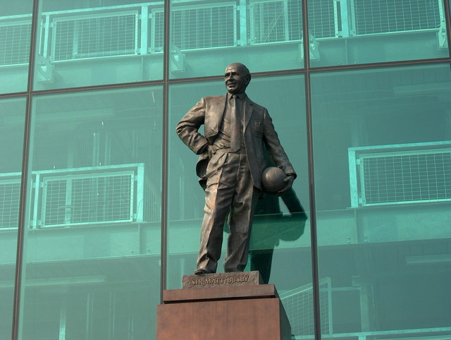 Sir Matt Busby's Statue, Old Trafford